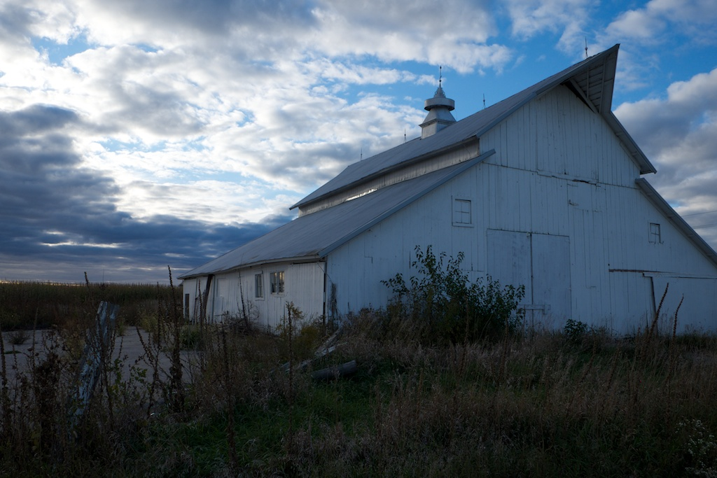 First Johnson County Asylum